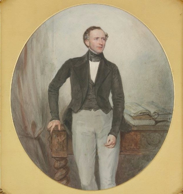 Portrait of Christopher William Puller (1807–1864), English barrister and politician.